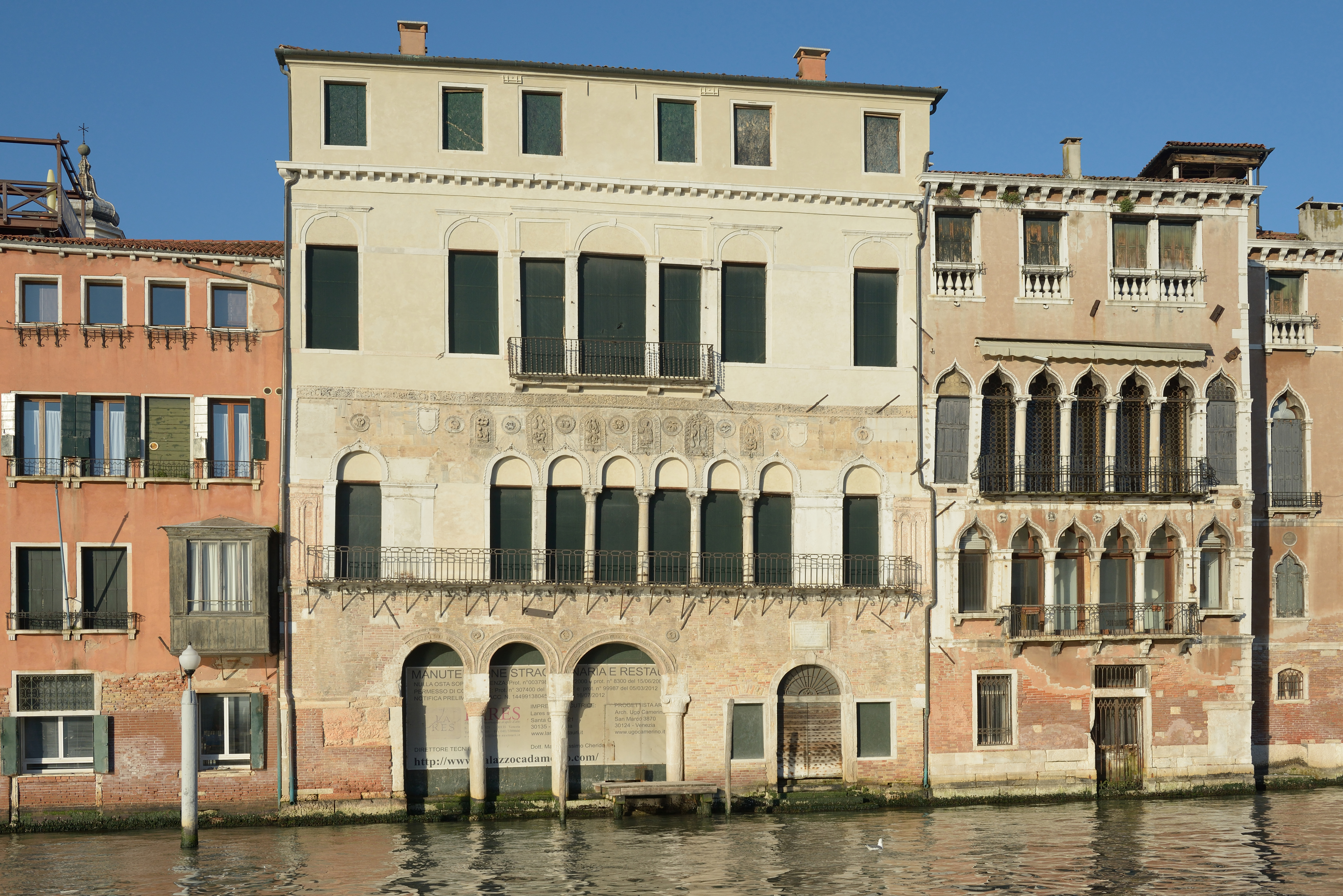 The Ca' da Mosto palace and Palazzo Dolfin in Venice. View from the Canal Grande.